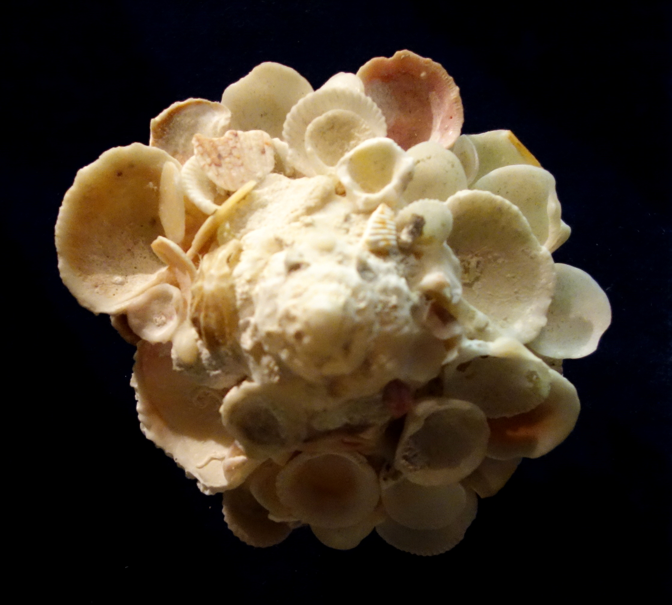 Exhibit in the Fernbank Museum of Natural History, Atlanta, Georgia, USA.